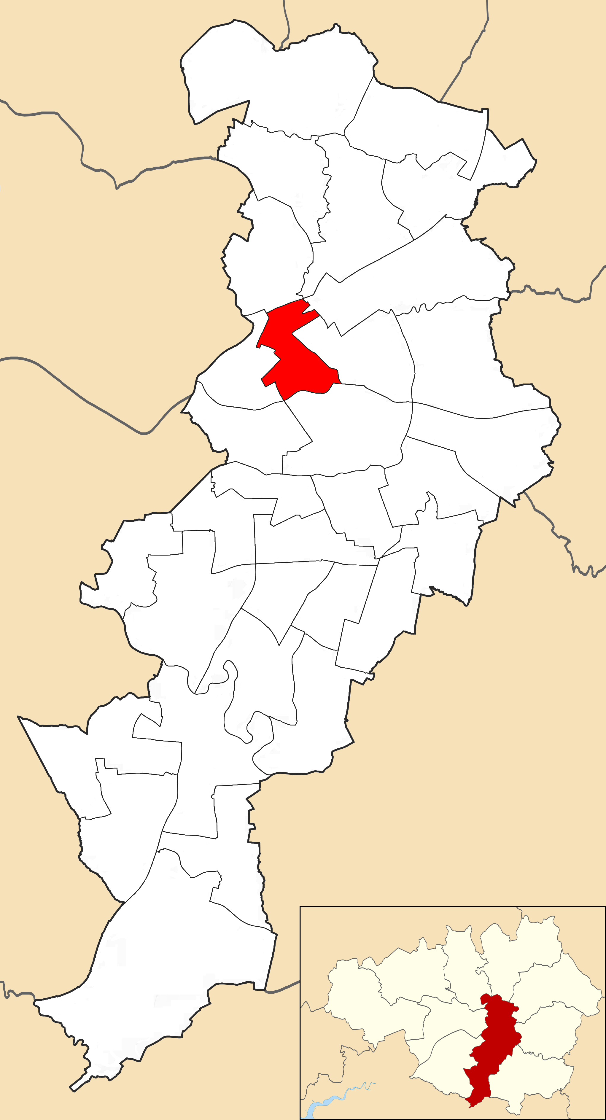 Map showing location of Piccadilly ward within Manchester City Council.